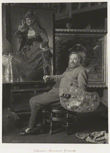 "Valentine Cameron Prinsep," platinum print by Ralph Winwood Robinson, circa 1889, published 1892 (by C. Whittingham & Co.). 7 7/8 in. x 5 7/8 in. (201 mm x 150 mm). Courtesy of the National Portrait Gallery, London.